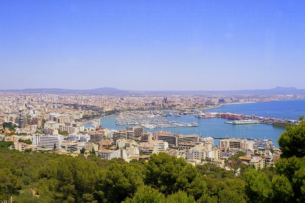 Port of Palma de Mallorca